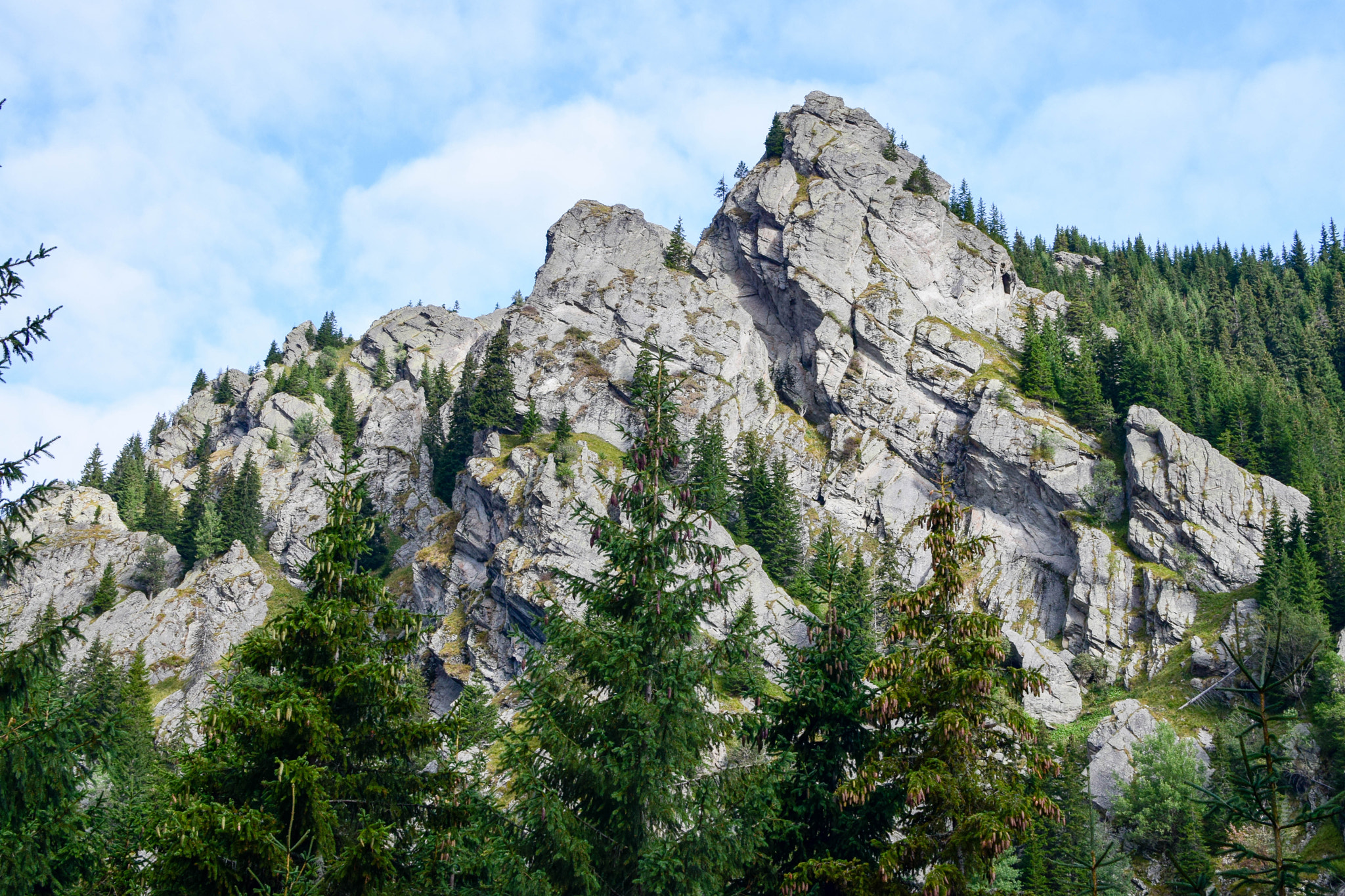 500px provided description: Fagaras Mountains, Carpathians, Romania, 2017 Nucsoara, Arges, Moldoveanu Peak from the south area, specifically: The Cremen's Collars/Coltii Cremenei [#Mountains ,#Romania ,#Transylvania ,#Hiking ,#Retezat ,#Fagaras ,#Carpatians]